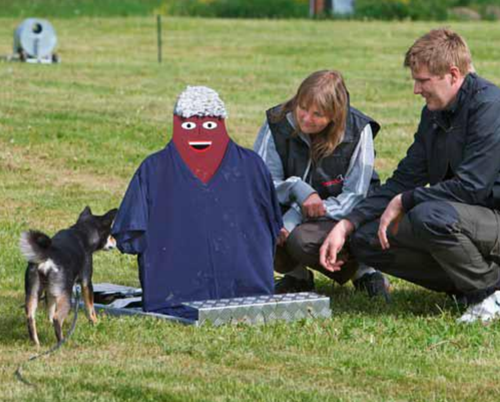 A shiba inu investigating the metal shaped cut-out of a person during the 'surprise' step of the BPH.